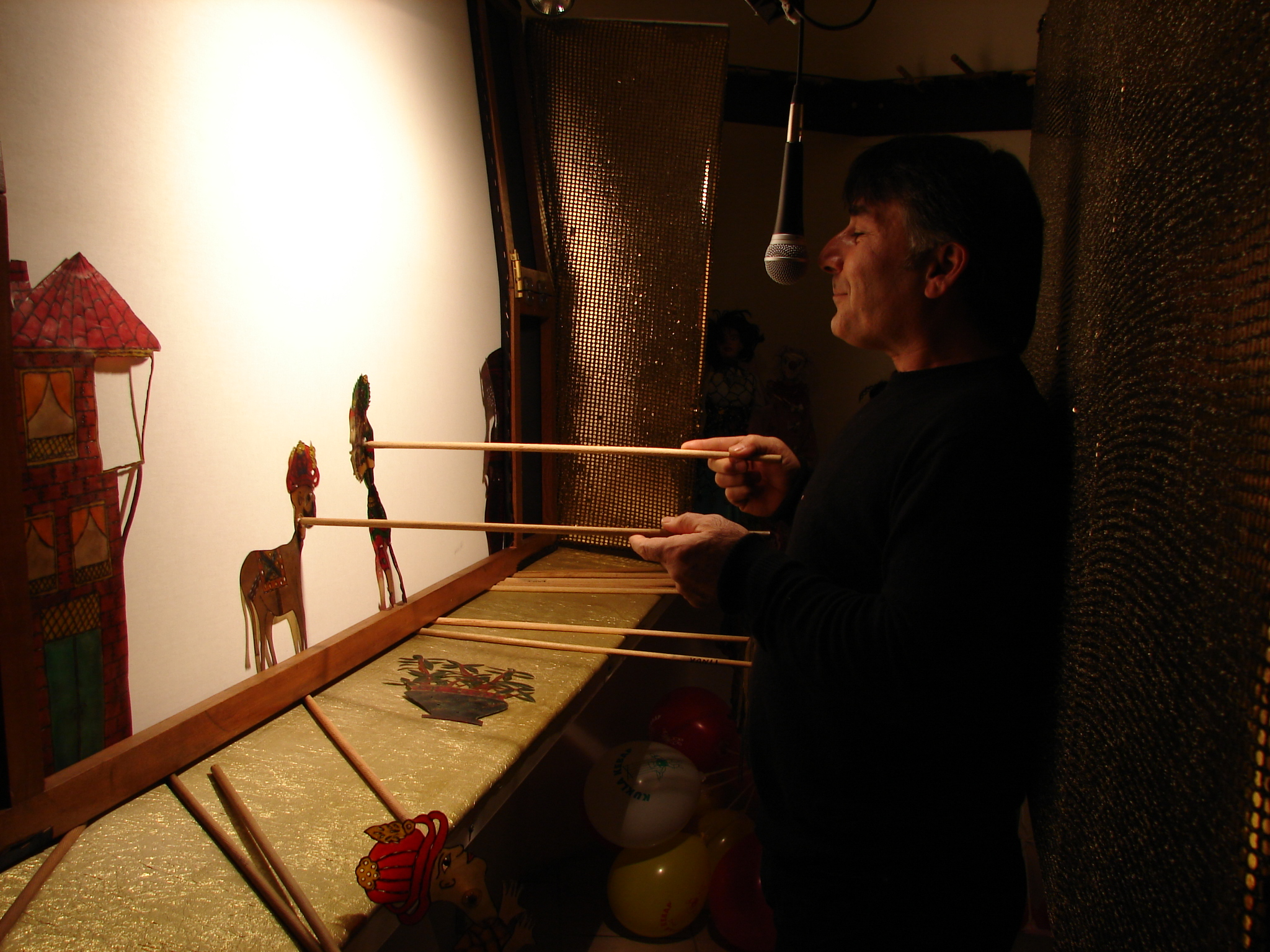 Karagoz theatre, backstage.